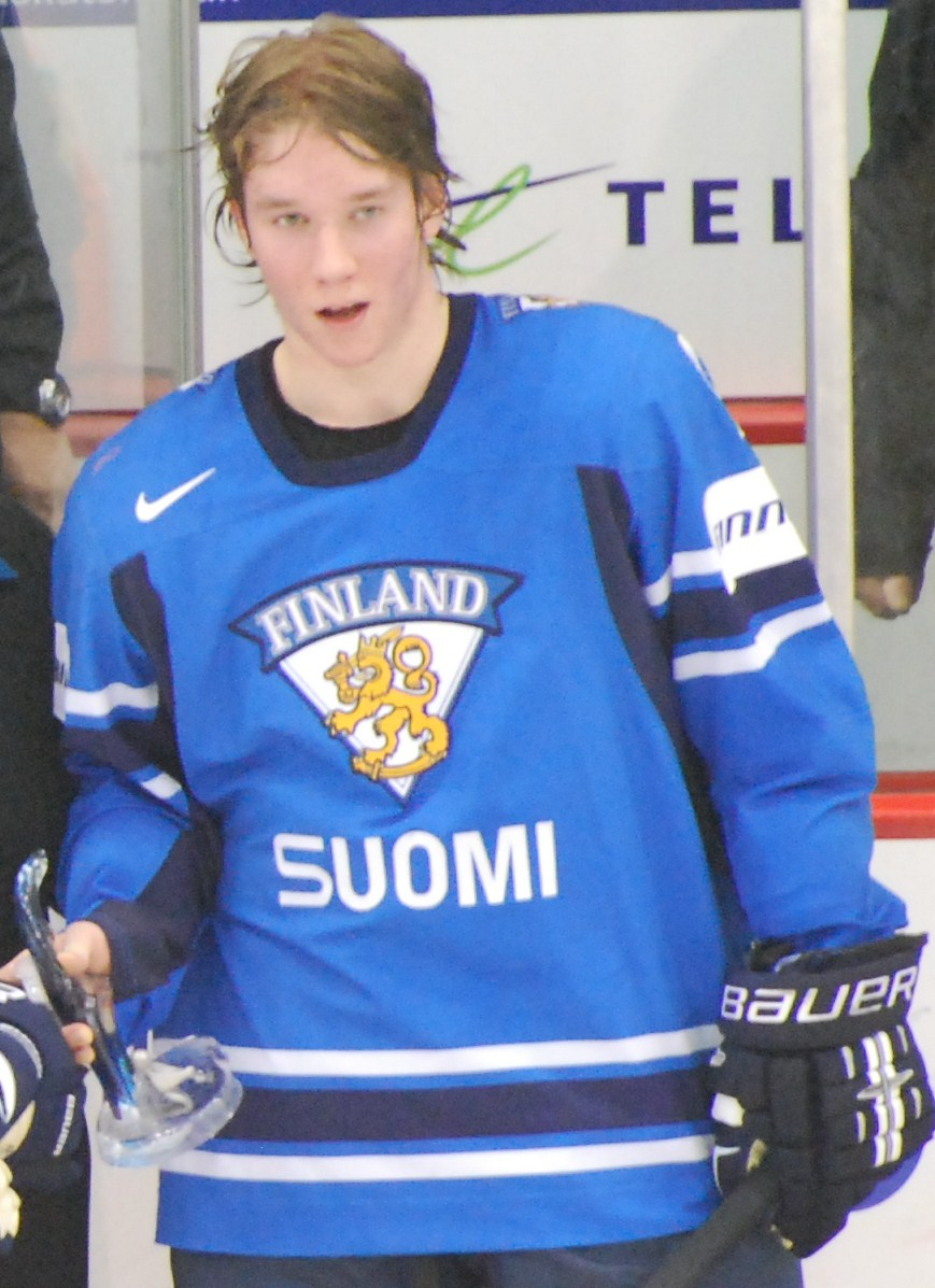 Sami Vatanen accepts his player of the game award during the 2010 World Junior Championships.